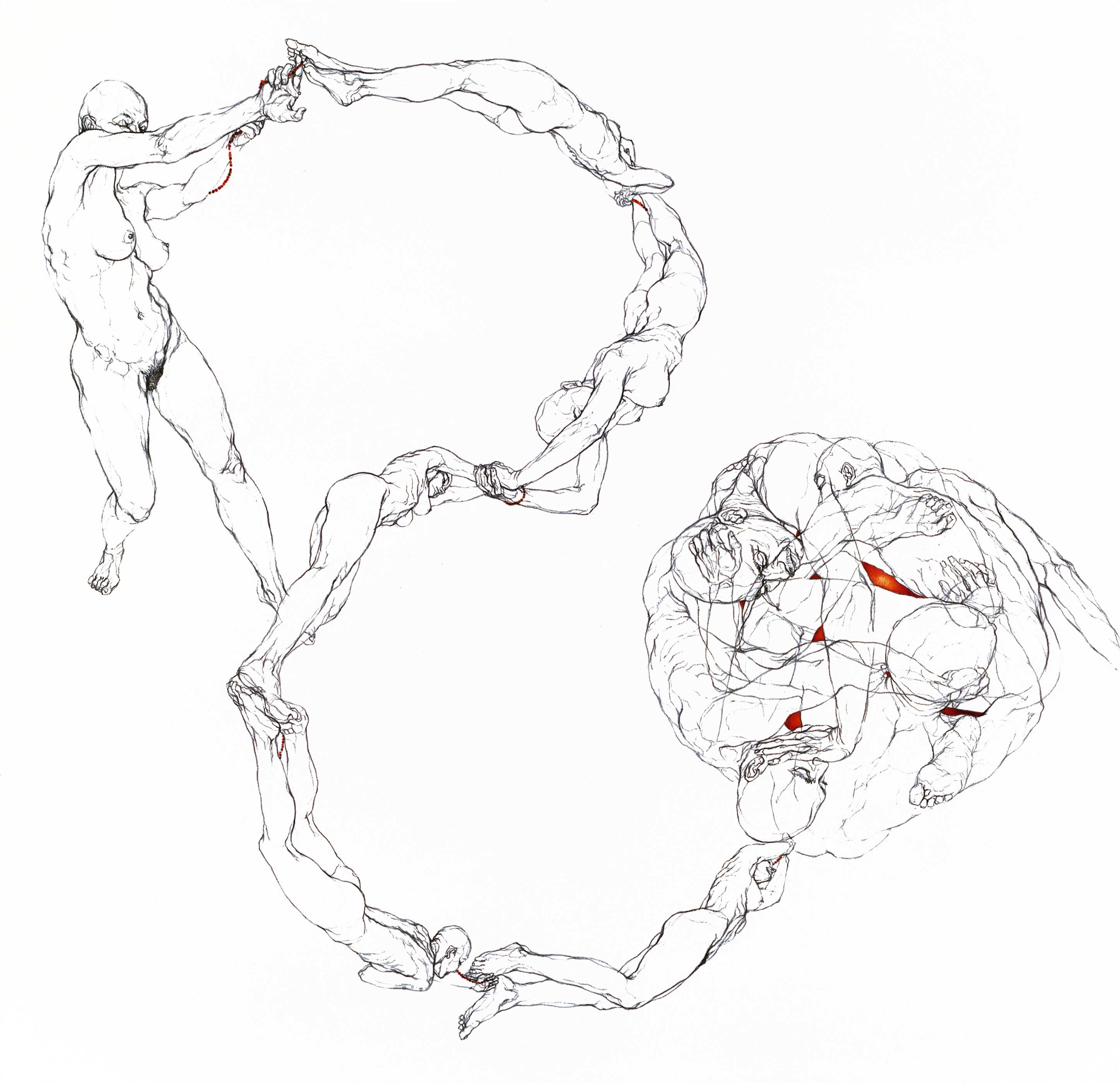 Sol Kjøk, "Unfurling". Pastels and crayons on wall, approx. 95" x 95". Permanent installation at Teckningsmuseet i Laholm, Sweden.